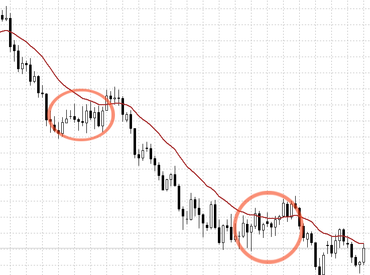 Correction